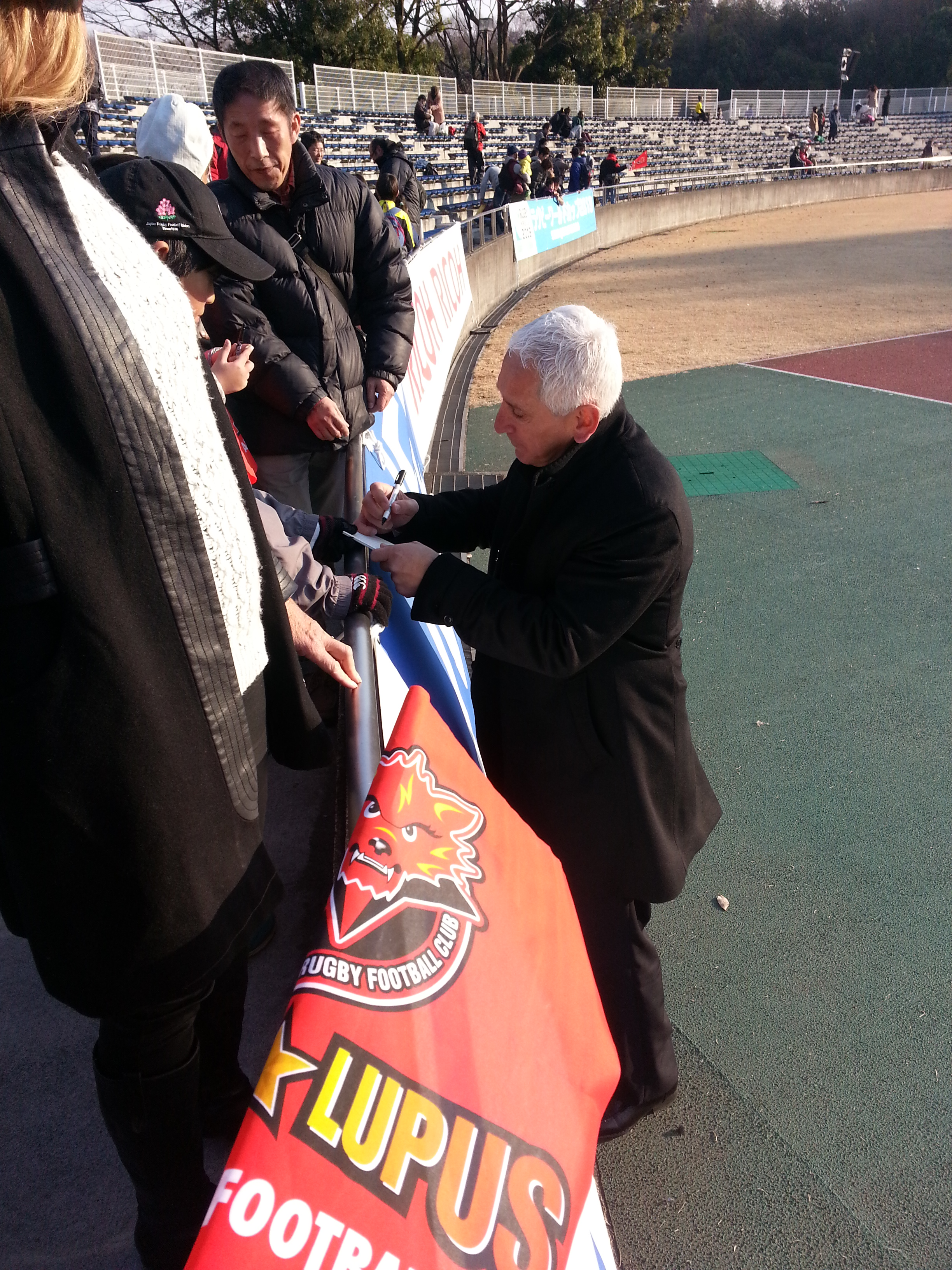 Joe Barakat signing autographs after Toshiba Brave Lupus defeated the Canon Eagles at Machida Athletic Stadium